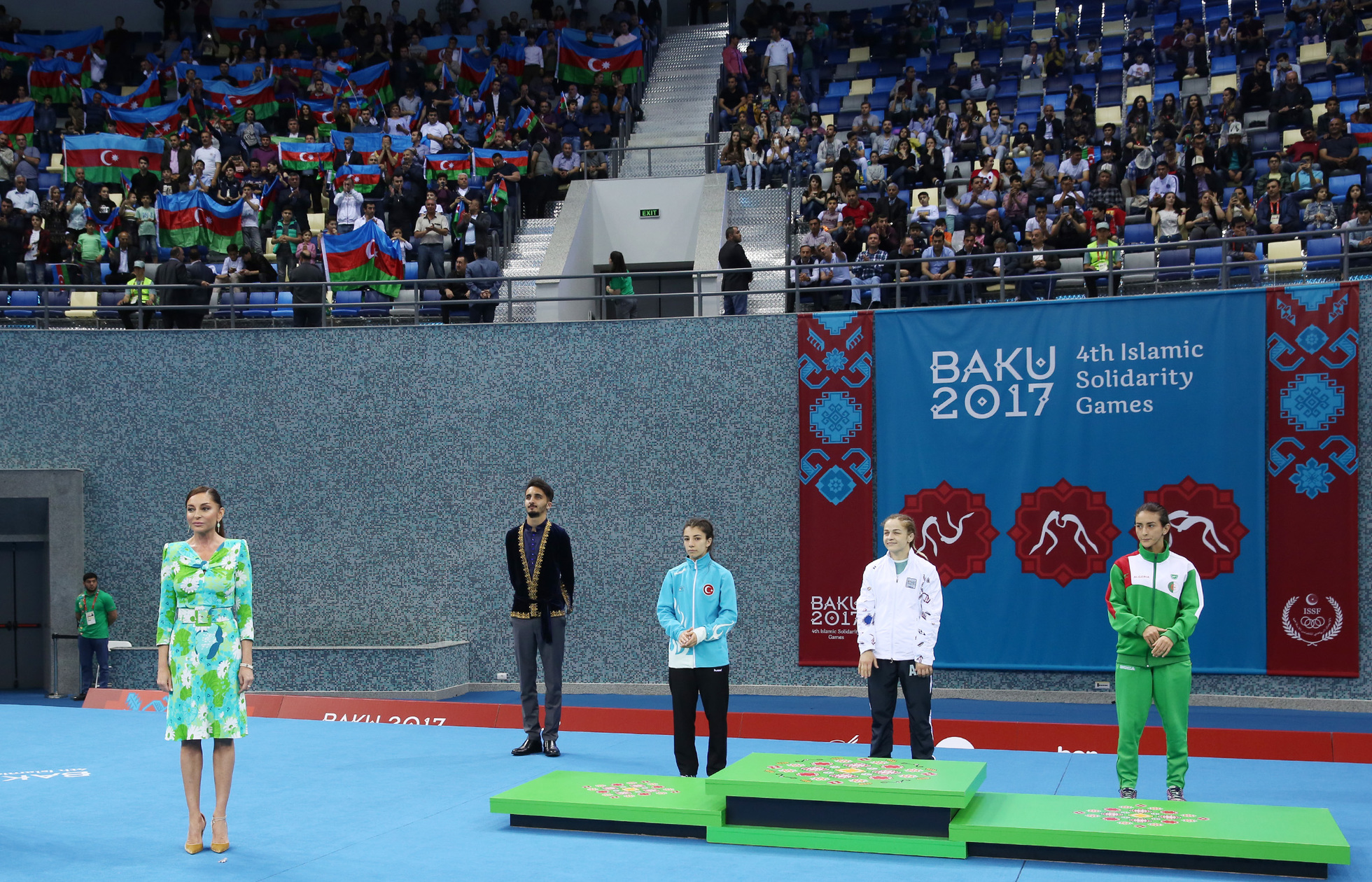 First Vice-President Mehriban Aliyeva presented medals to Azerbaijani champions in IV Islamic Solidarity Games